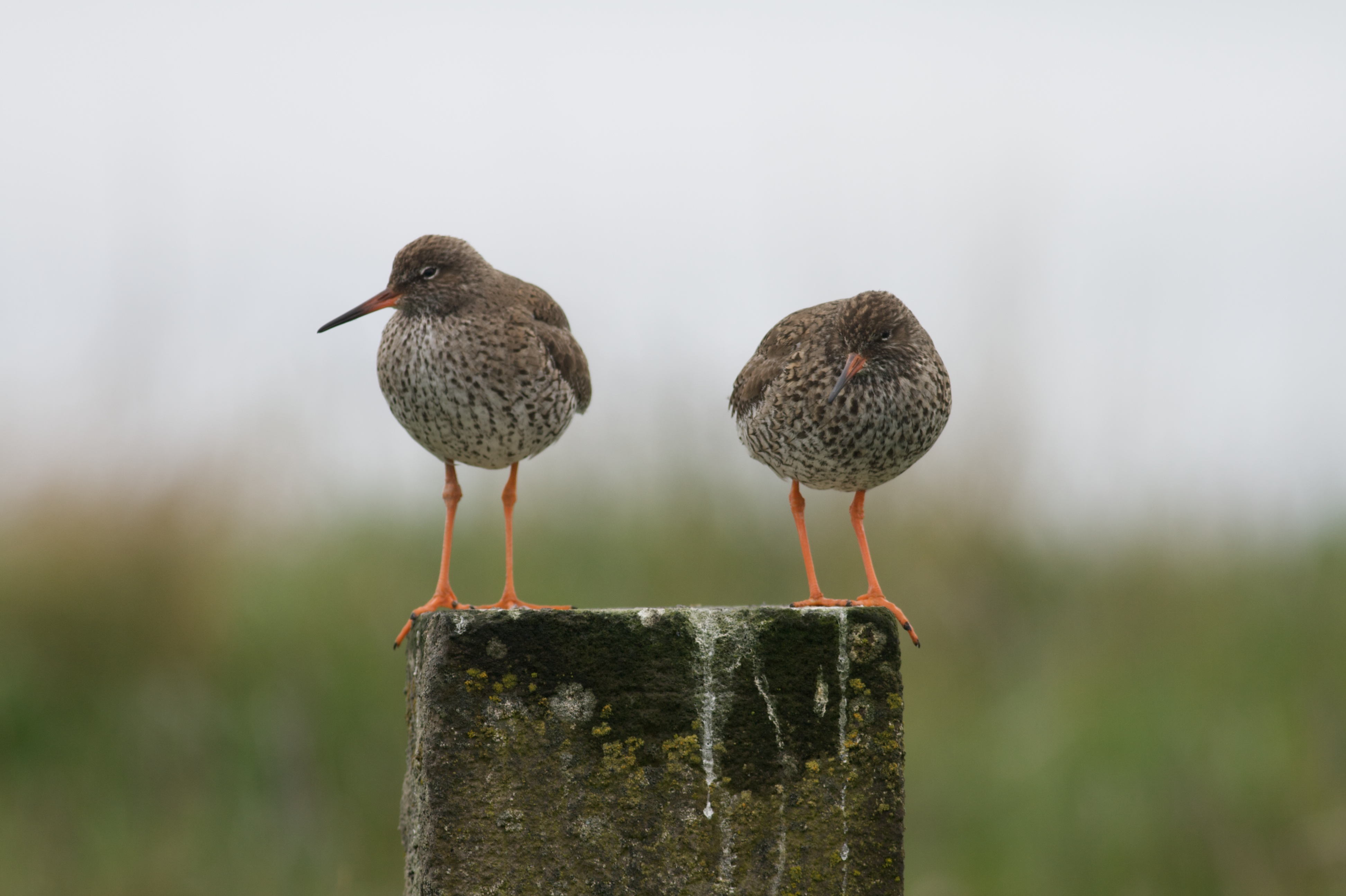 Two Redshanks on a stone pillar